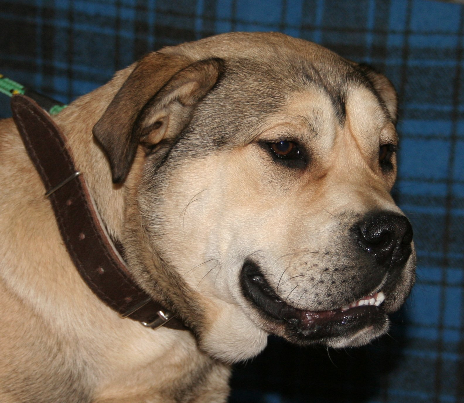 Majorca Mastiff (Perro dogo mallorquin) during dogs show in Katowice, Poland